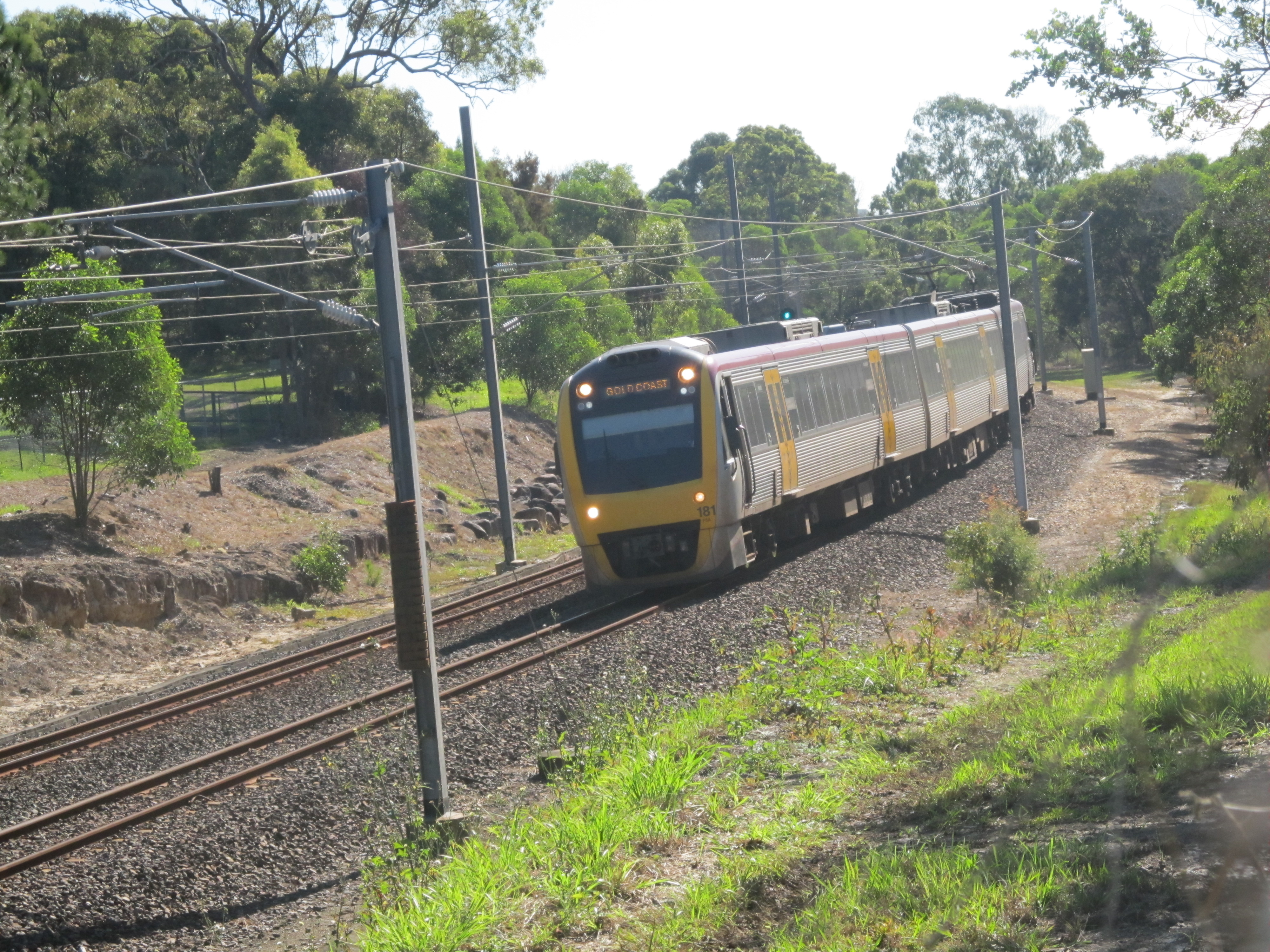 IMU 181 leads 165 for Gold Coast